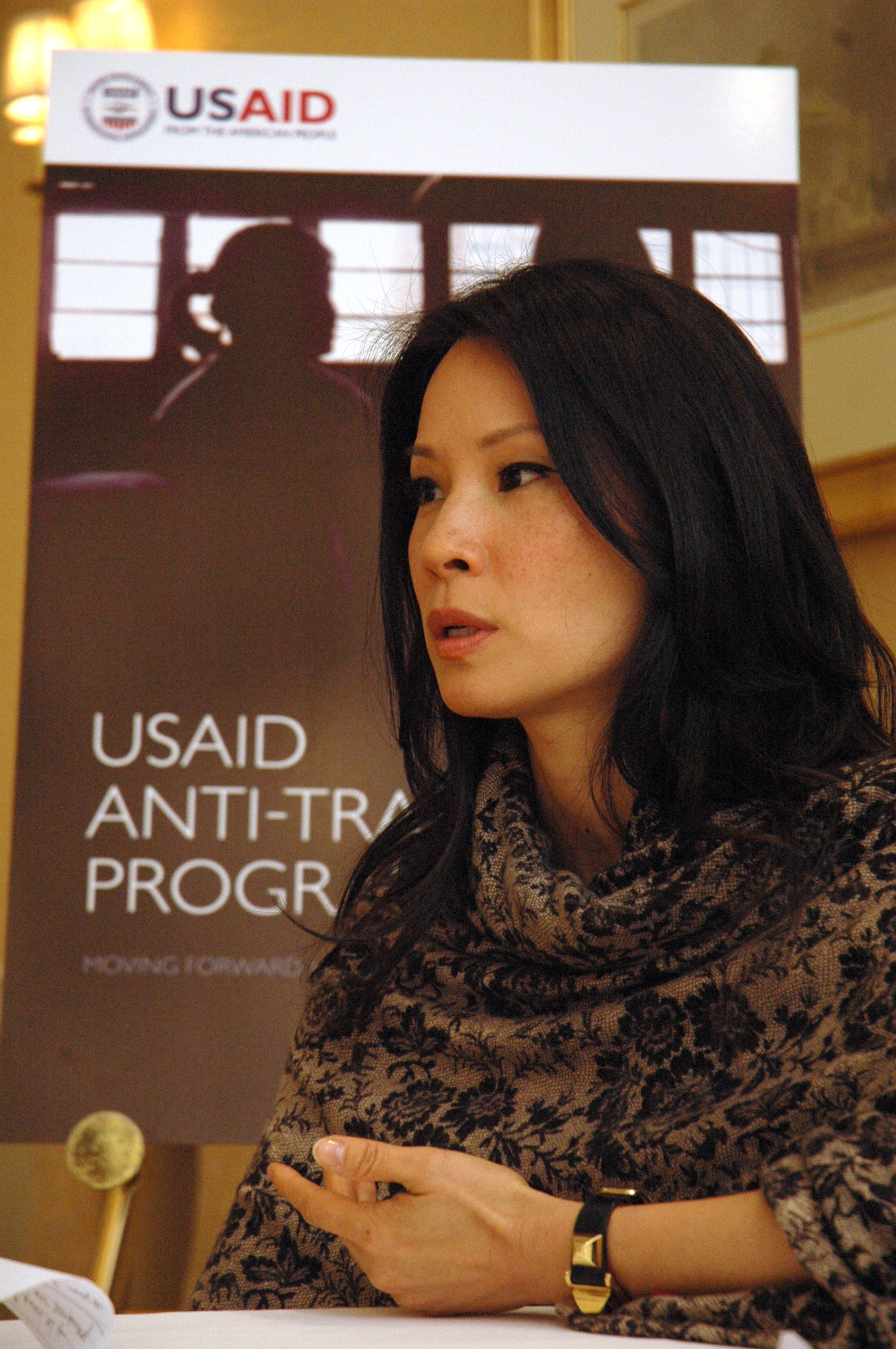 USAID Human Trafficking Symposium, Sept. 16, 2009 -- Actress and UNICEF Ambassador Lucy Liu spoke out against human trafficking and lauded USAID efforts to increase awareness. YouTube Interview